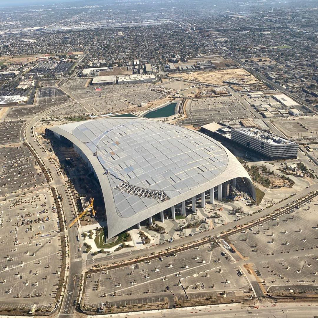 SoFi Stadium in July 2020 - Inglewood, California